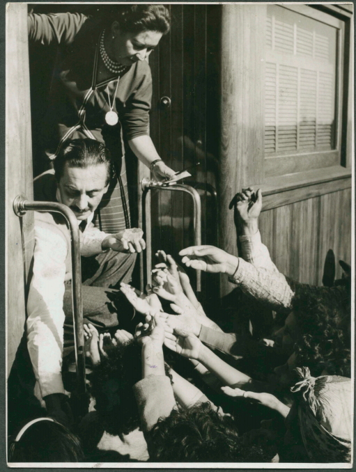 Janio Quadros distribui vassourinhas em sua campanha presidencial em 15 de abril de 1960. Imagem registrada no Jornal Correio da Manhã. Retirada do acervo do Arquivo Nacional sob o codigo br_rjanrio_ph_0_fot_00163_d0181de0186